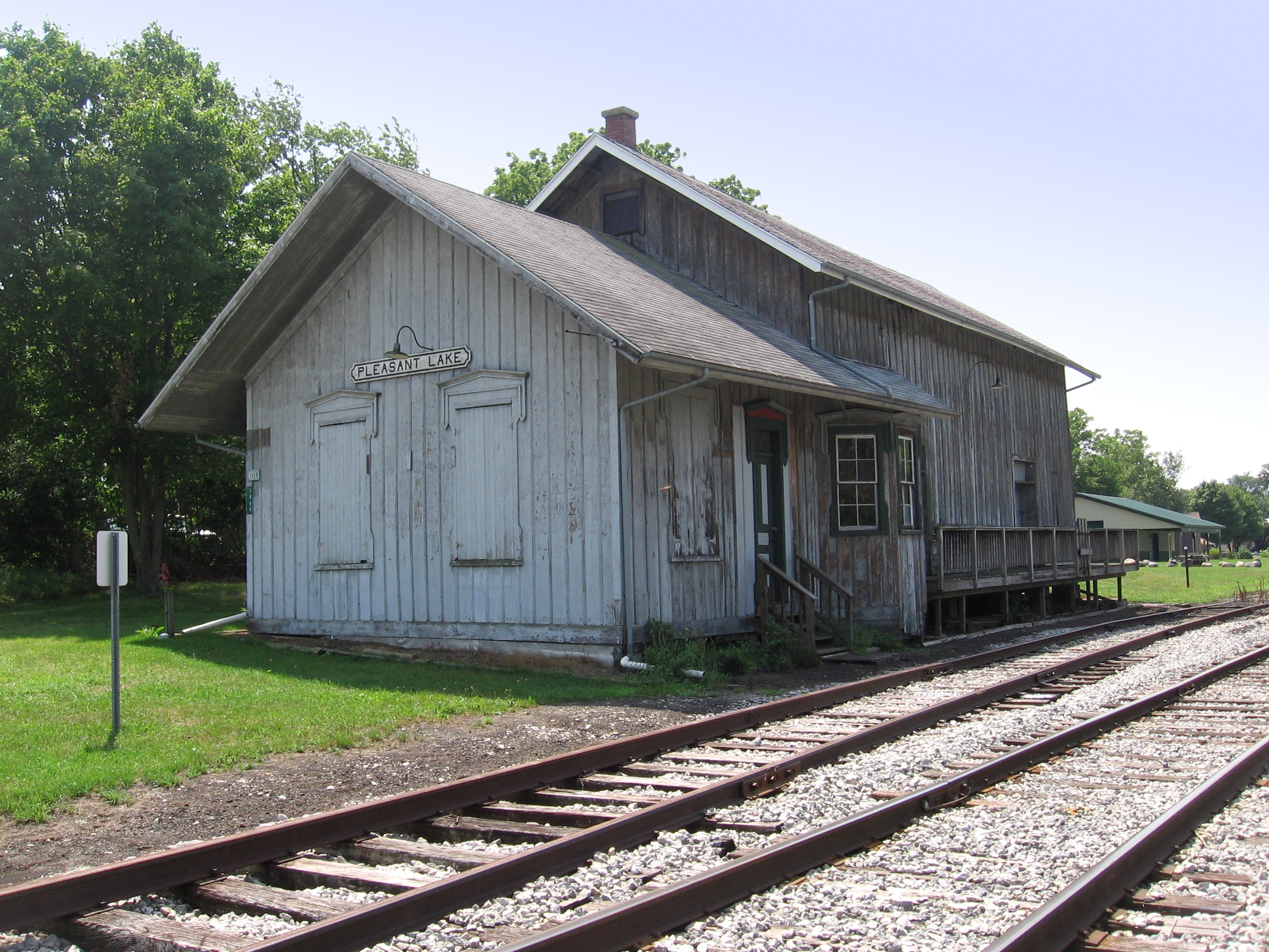 A view of the Pleasant Lake Depot, on the National Register of Historic Places.